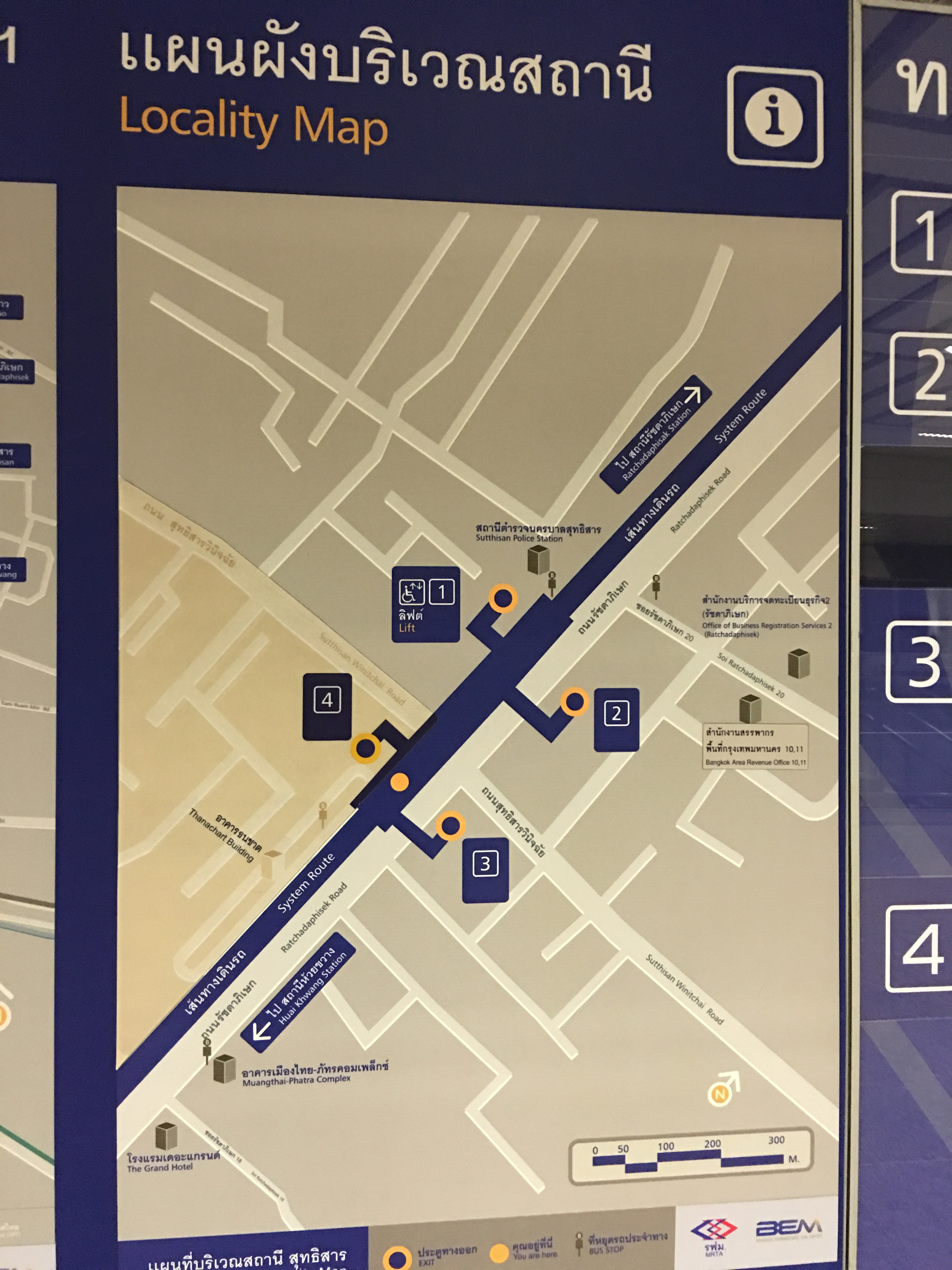 The locality map of Sutthisan Station